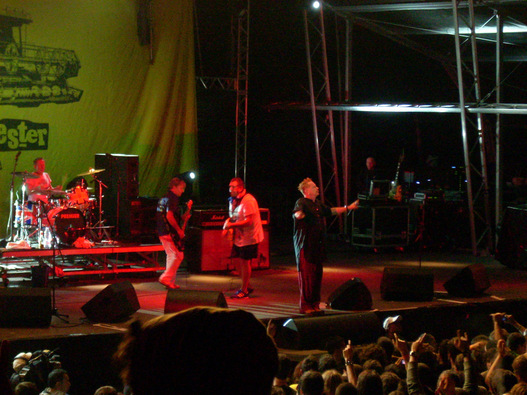 The Sex Pistols performing in Paredes de Coura, Viana do Castelo, on August 1, 2008.